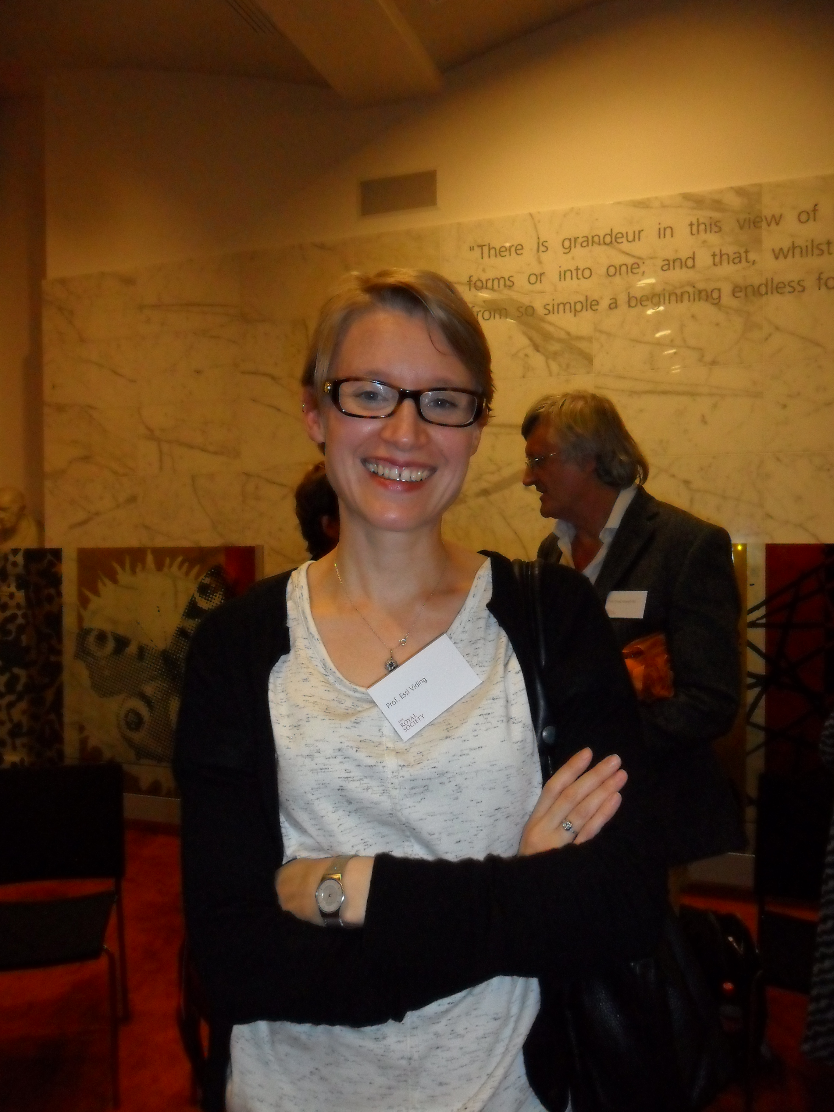 Essi Viding after a women in science panel discussion at the Royal Society. David Attwell FRS can be seen in the background.